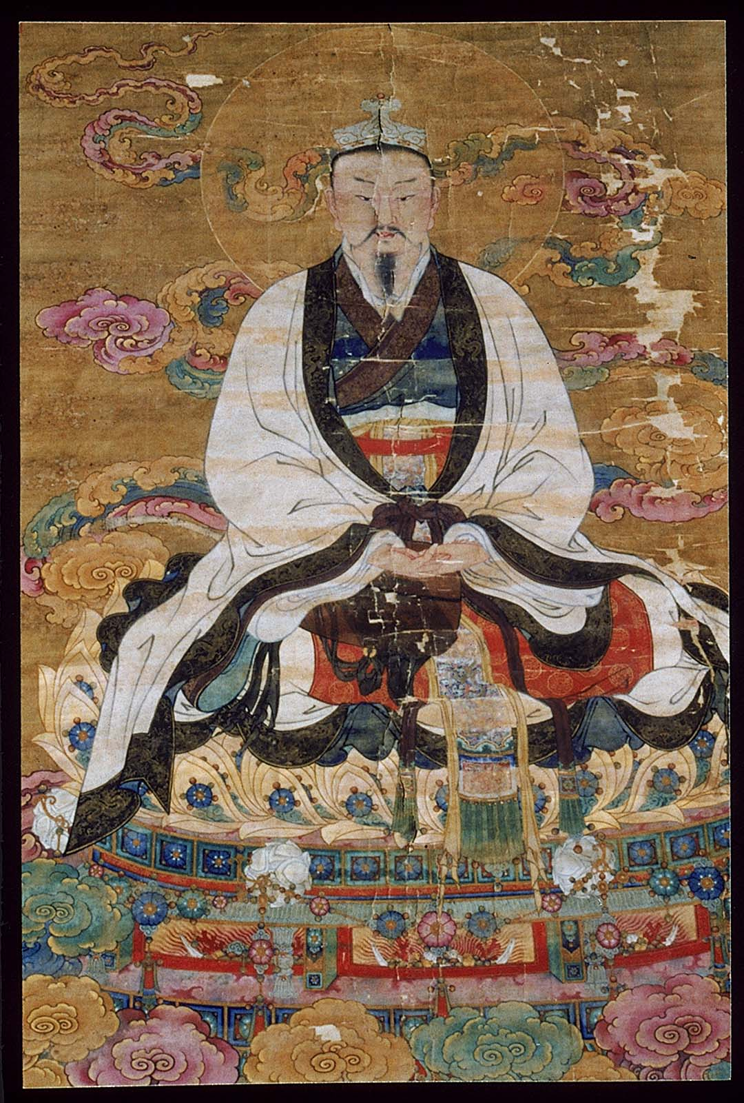 This image depicts the deity Jade Emperor.